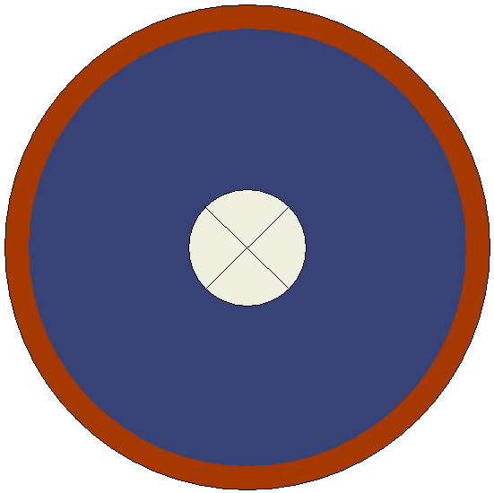 Shield pattern of Undecimani (ex Legio XI Claudia), a Legio comitatenses in the early 5th century. Source: Notitia Dignitatum Occ. V.